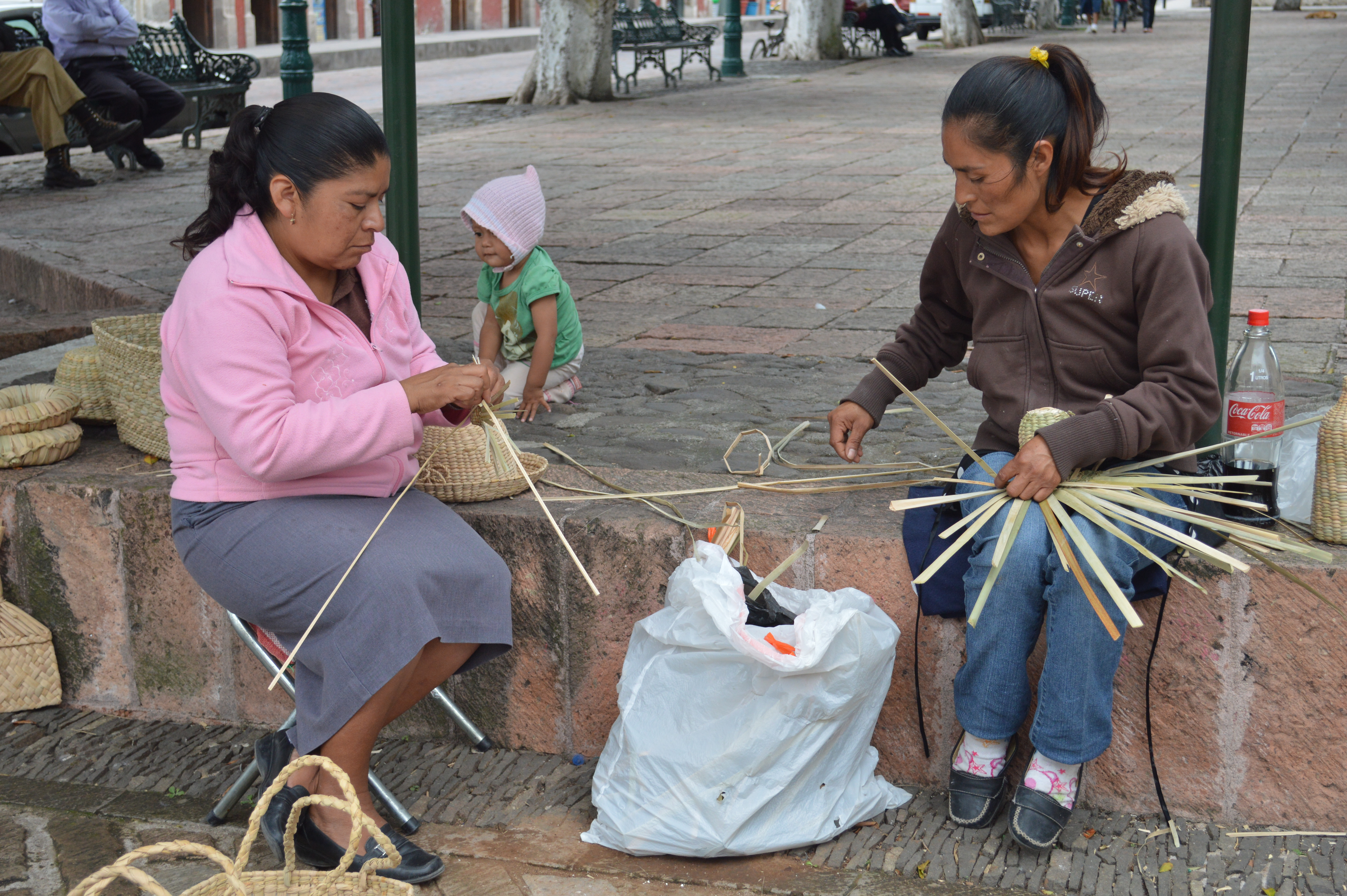 Basketmakers in Cuitzeo, Michoacán, Mexico